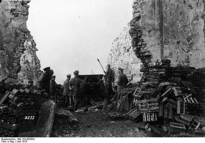 Information added by Wikimedia users.